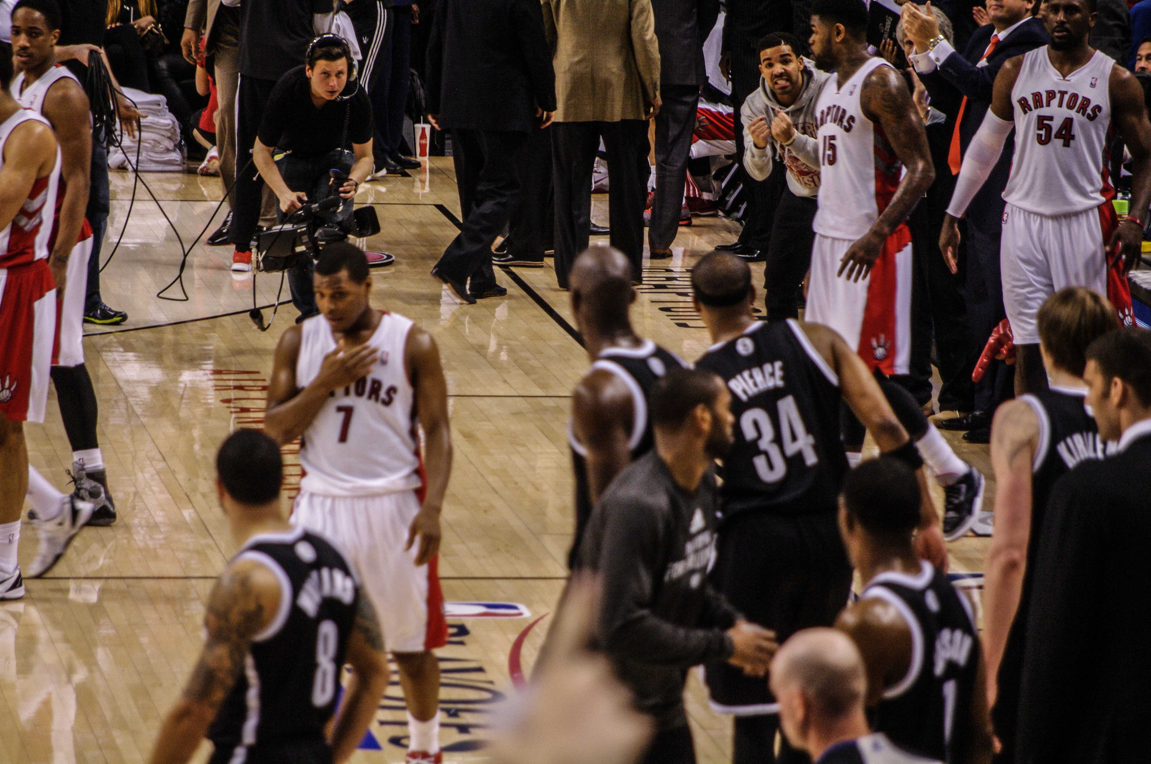 Nets vs Raptors, Game 2, first round of 2014 NBA Playoffs, Toronto, 22 April 2014